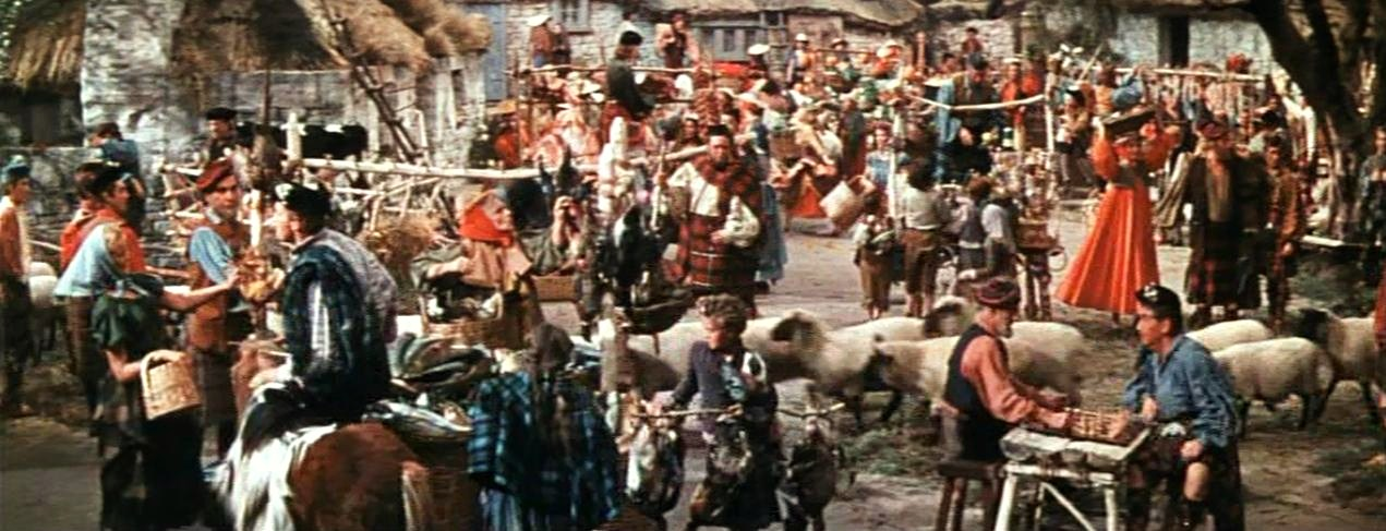 number Down on MacConnachy Square in Brigadoon - trailer (cropped screenshot)